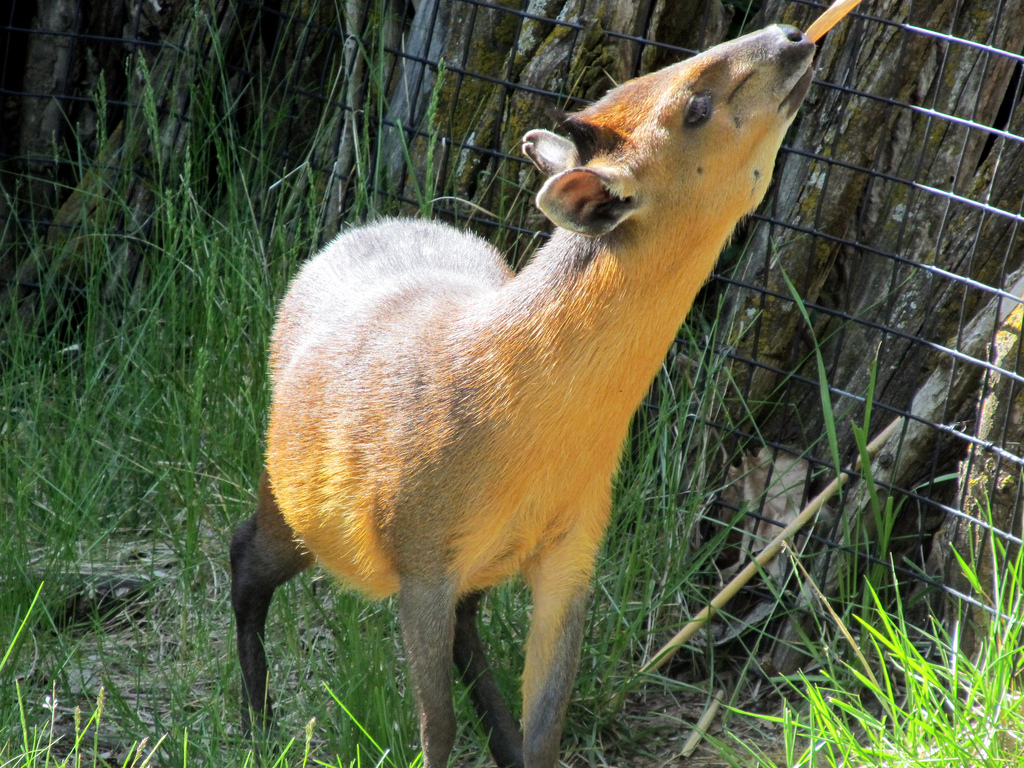 An absoulutly beautifully-colored duiker. A cool combo of red and blue tints.